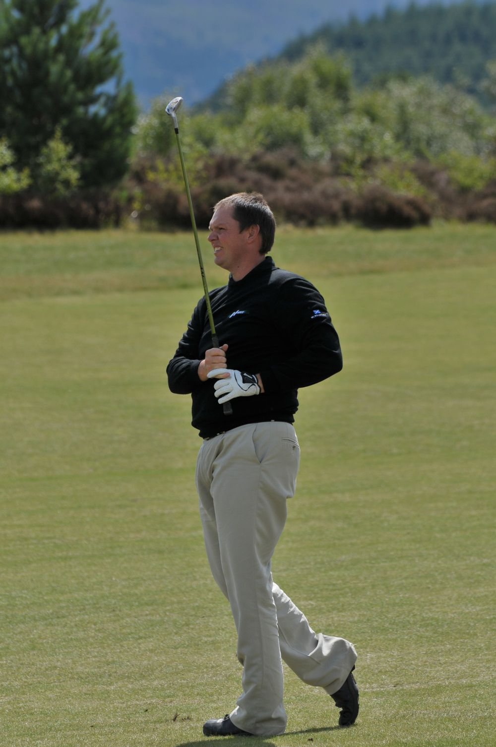 Jamie Mcleary at the PGA European Tour Scottish Hydro Challenge at the Spey Valley Golf Course in Aviemore. Image by Aaron Sneddon